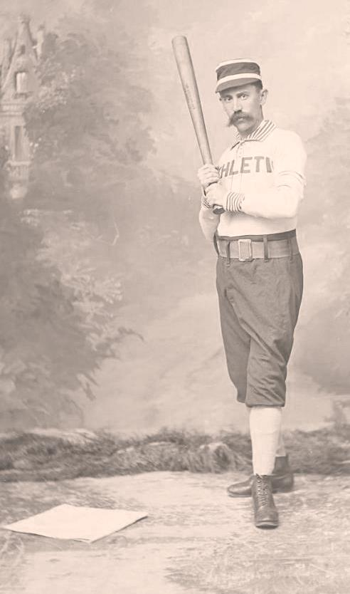 Baseball player Bobby Matthews with the Philadelphia Athletics